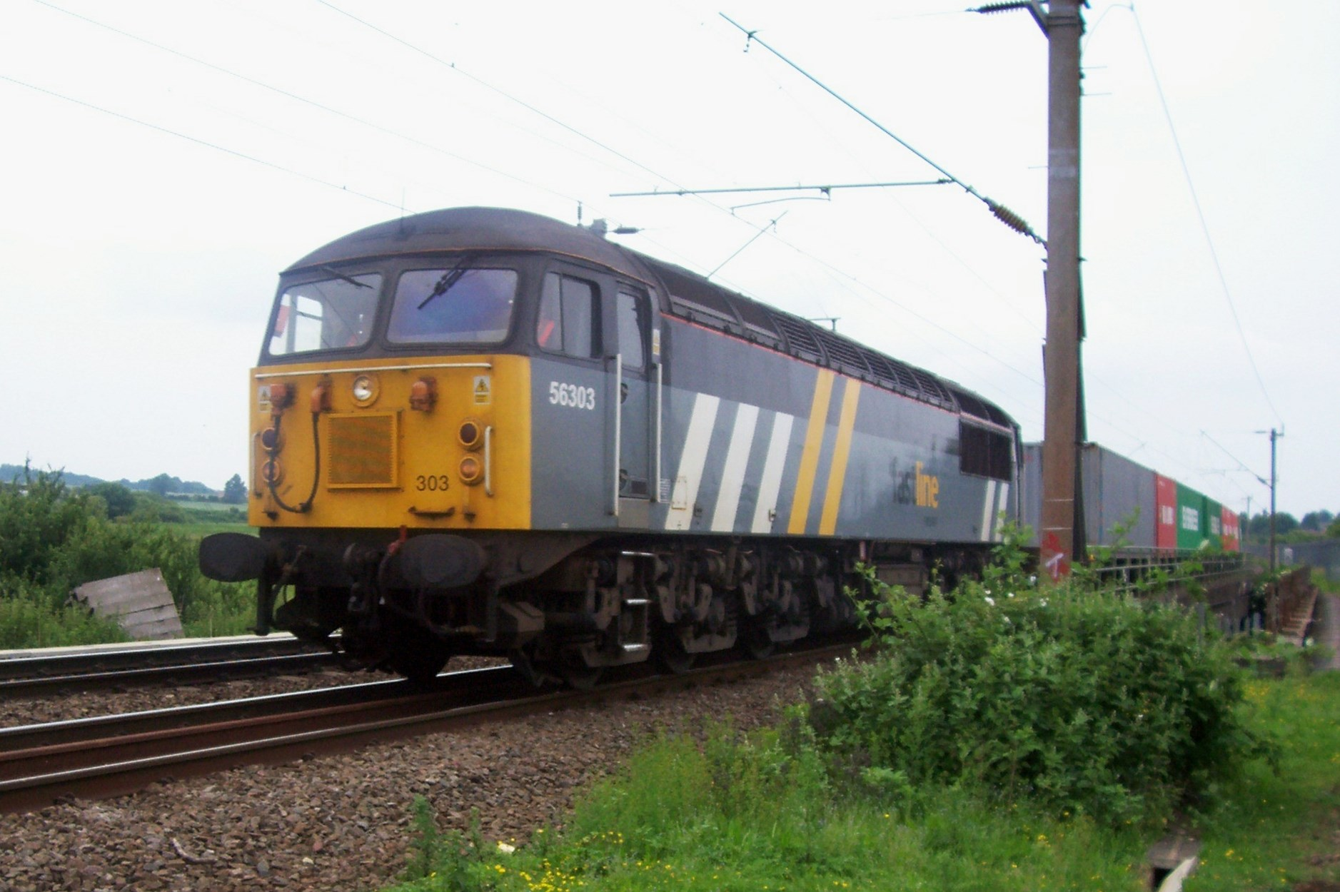 fastline Class 56 Number 56303, passes Kingsthorpe (probably should be noted as Kingsheath, but I always have called it Kingsthorpe), which is 3 minutes North of Northampton station. This service (4O90) is nicknamed the Fresh Air Express. 13th June 2007